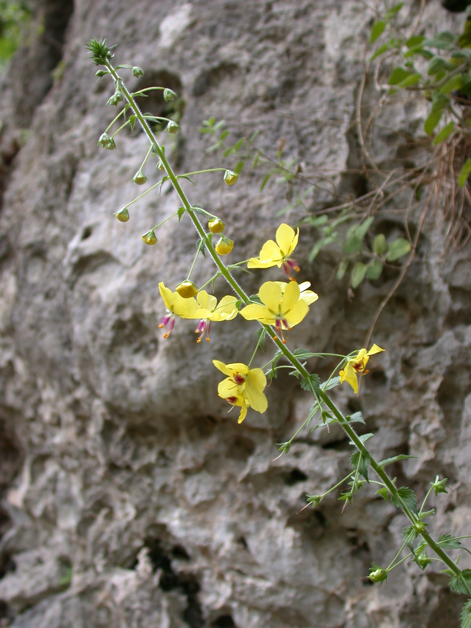 Verbascum levanticum I.K.Ferguson, Nachal Rakefet, Mount Carmel, Israel, April 18, 2006.